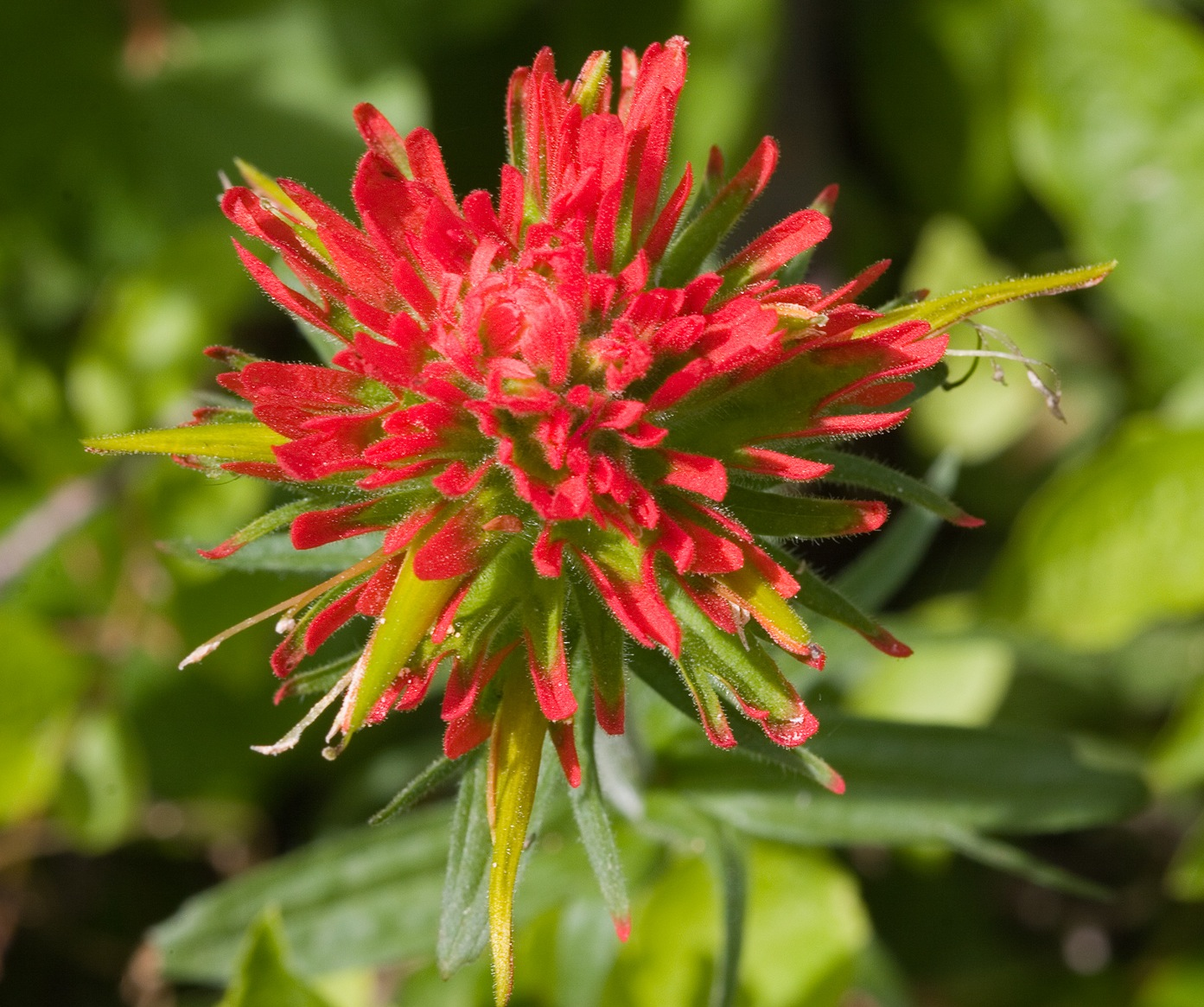 Castilleja suksdorfii, flower. Near Mount Adams, Washington, USA.